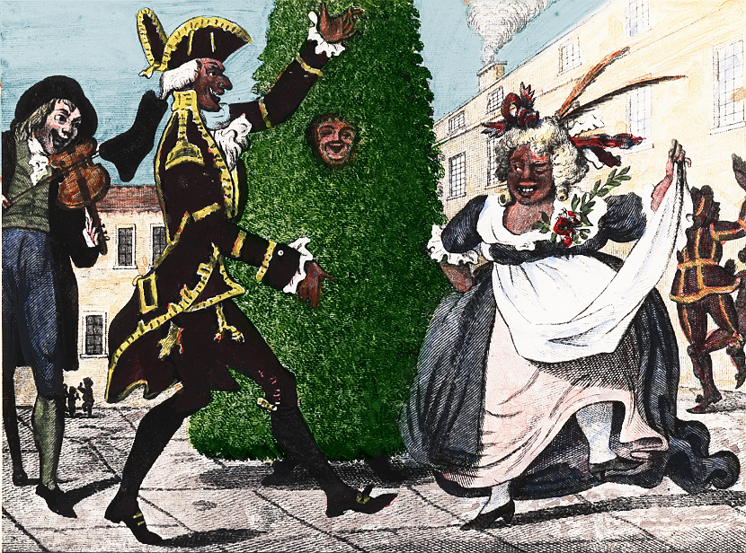 The chimney-sweeps' May Day "Jack in the Green" in London during the 18th century. The portly "May Queen" on the right of the picture is probably a man.